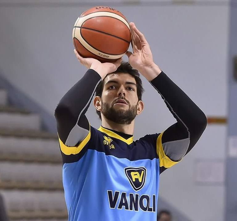 Giampaolo Ricci - Cremona 2018